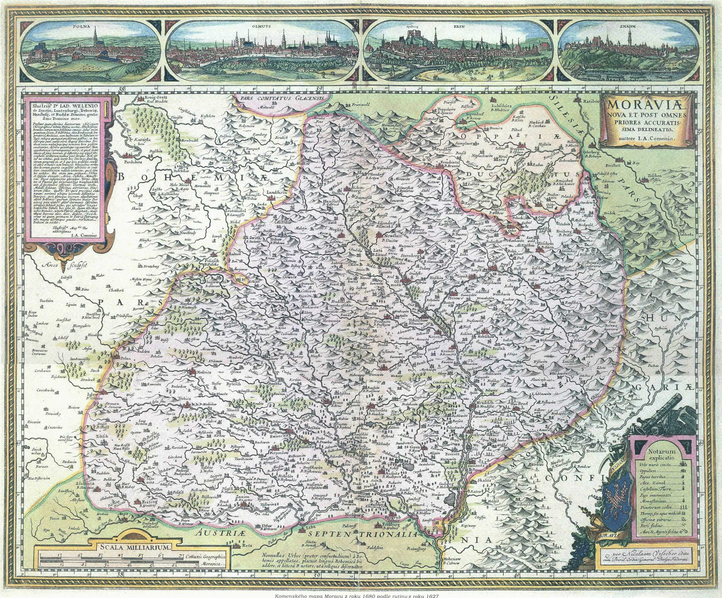 Komensky map of Moravia in 1627 from 1680